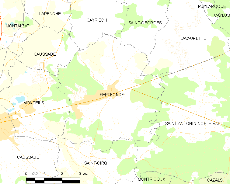 Map of French municipality Septfonds